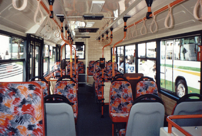 Autosan A844MN Stokrotka bus interior (#655) prototype. Built 2001. MPK Rzeszów operator (from 2004).